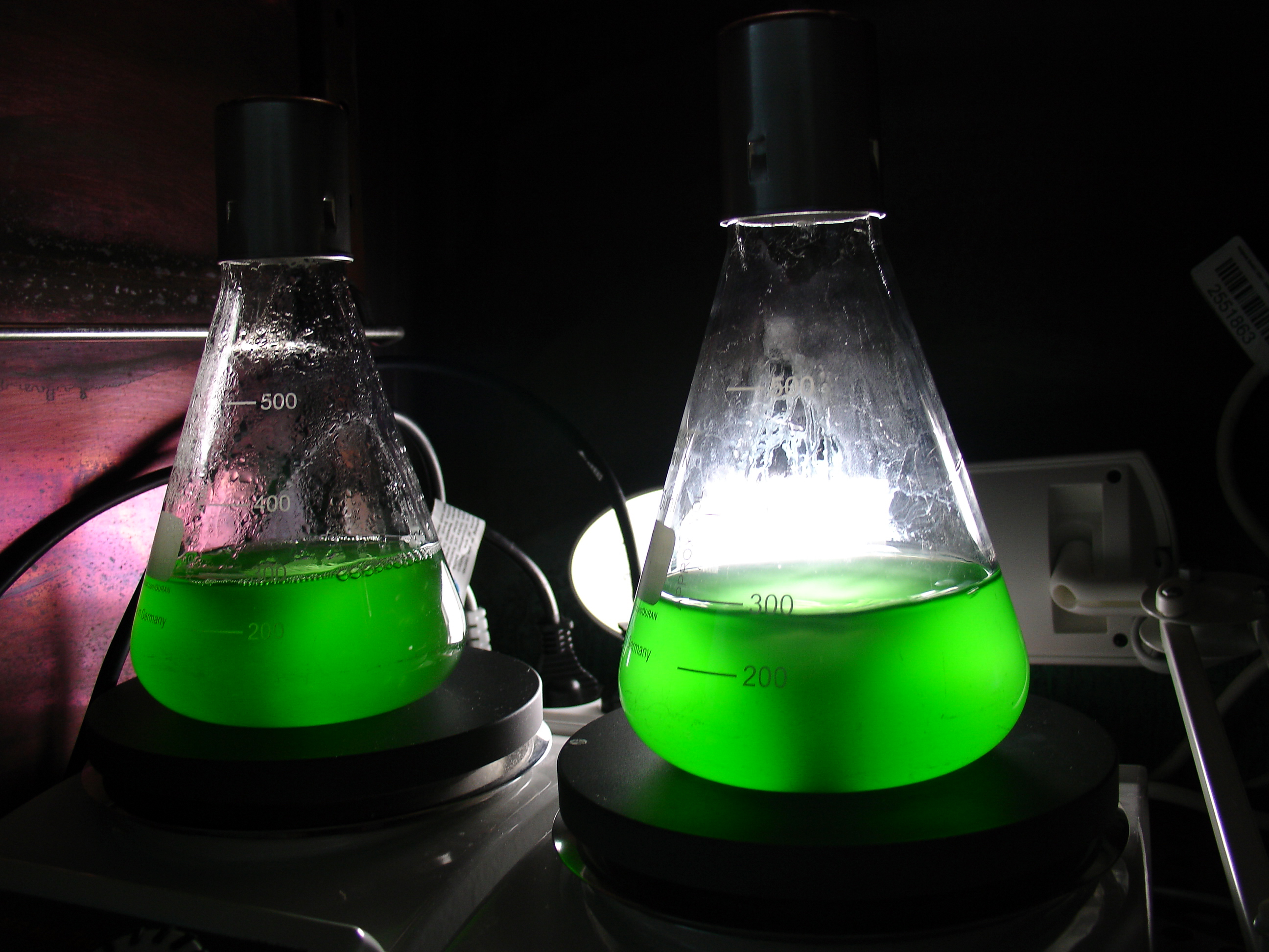 Cyanobacteria Synechococcus PCC 7002 cultures